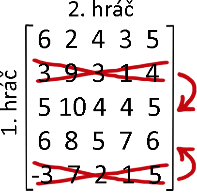 dominanted strategies